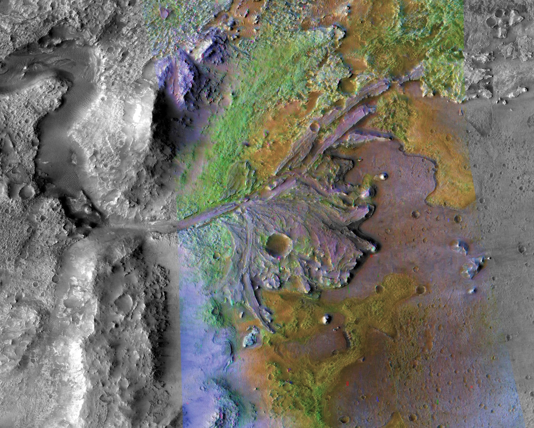 A color-enhanced image of the delta in Jezero Crater, which once held a lake. It will be the landing site of NASA's Mars 2020 rover. Researchers led by CRISM team member and Brown graduate student Bethany Ehlmann report that ancient rivers ferried clay-like minerals (shown in green) into the lake, forming the delta. Clays tend to trap and preserve organic matter, making the delta a good place to look for signs of ancient life. The image combines information from two instruments on the Mars Reconnaissance Orbiter: the Compact Reconnaissance Imaging Spectrometer for Mars (CRISM) and the Context Camera (CTX).